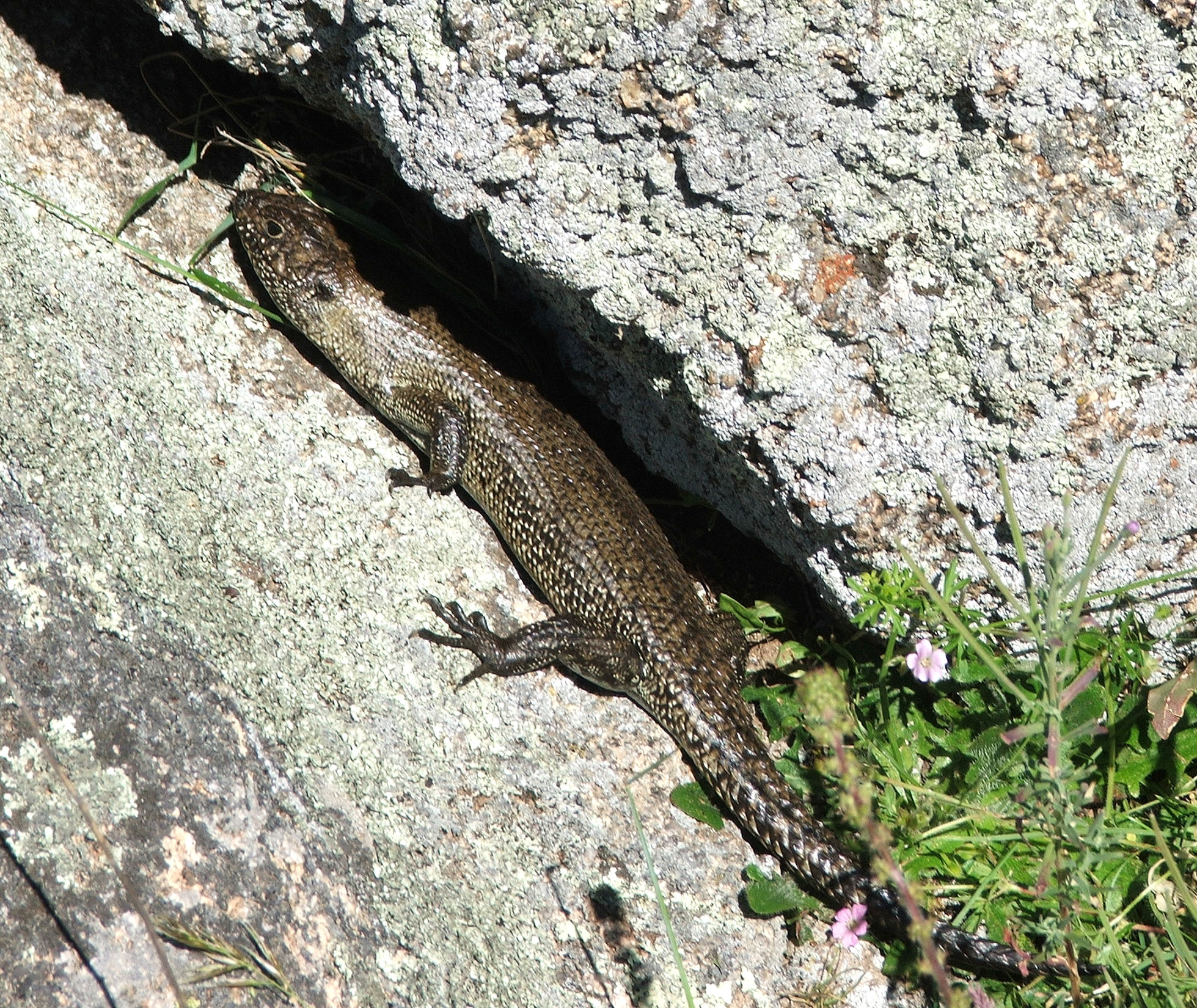 A Cunningham's Skink Egernia cunninghami in Namadgi National Park Dec, 2005. Photo taken by Martyman and released under the GFDL.